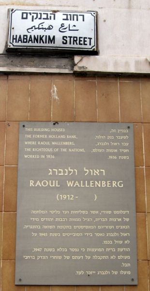 Israel, Haifa, HaBankim street (corner of Sderot HaMeginim) - Golf Bravo 05/11/06